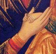 the hands of Mary and the child, detail from Our Lady of Perpetual Help, Byzantine icon said to be 13th or 14th century